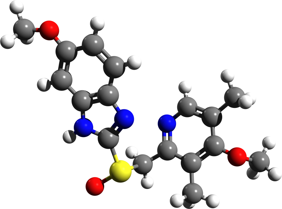 Omeprazole_3d_structure